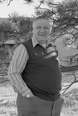 Wilmot N. Hess: US Federal Government photo as NCAR director